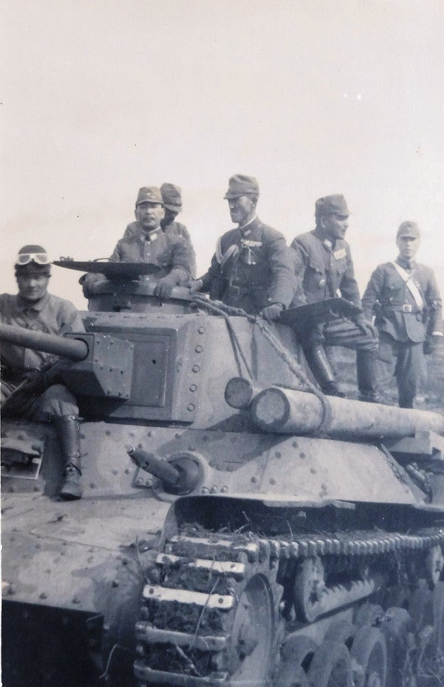 japanese general Tsutsumi Fusaki and his staff in a shinhoto tank in june 1945 before the last battle of ww2 that ocurred in Shumshu island one day after the atomic bombing of hiroshima and nagasaki